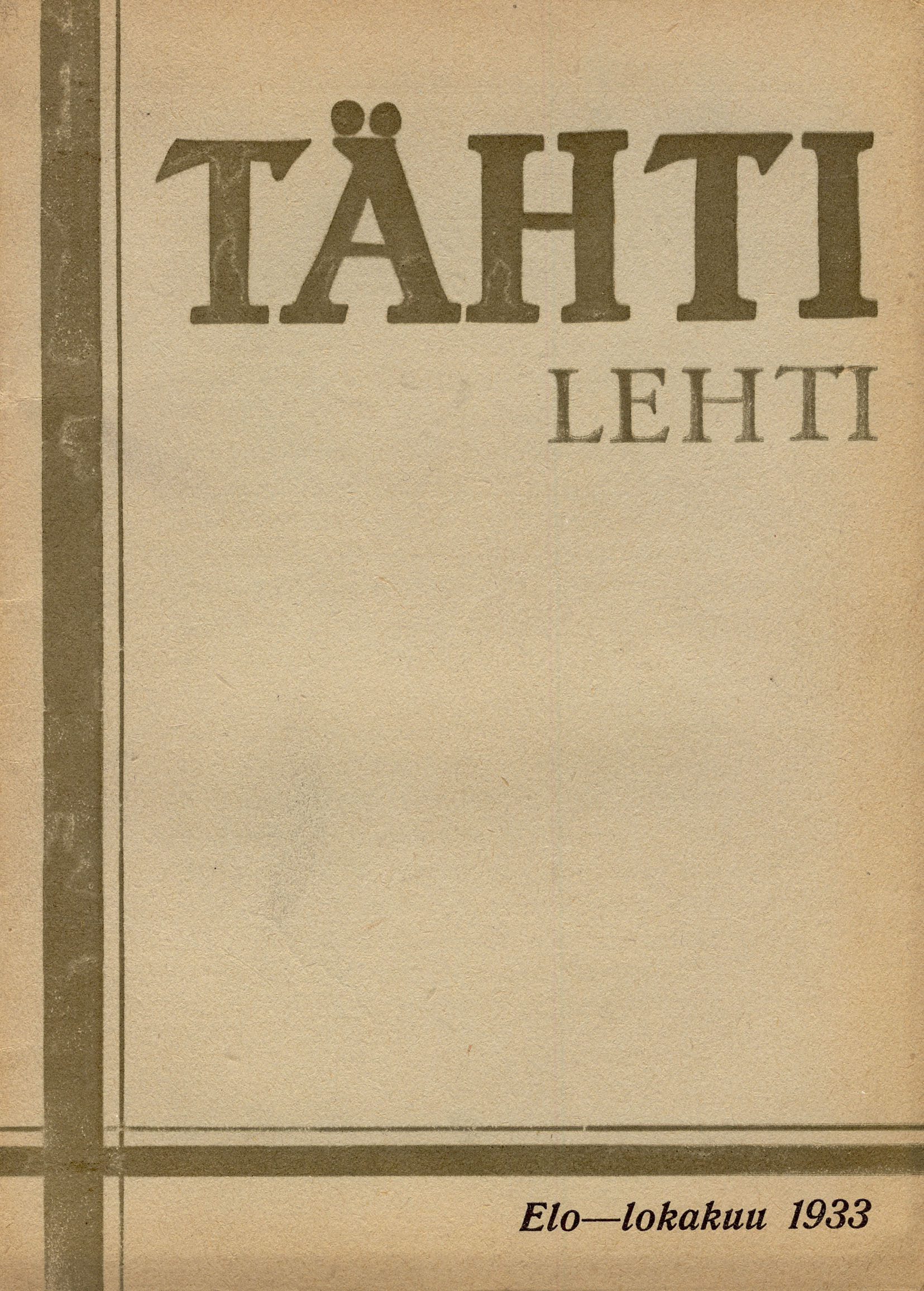 Cover of Tähtilehti